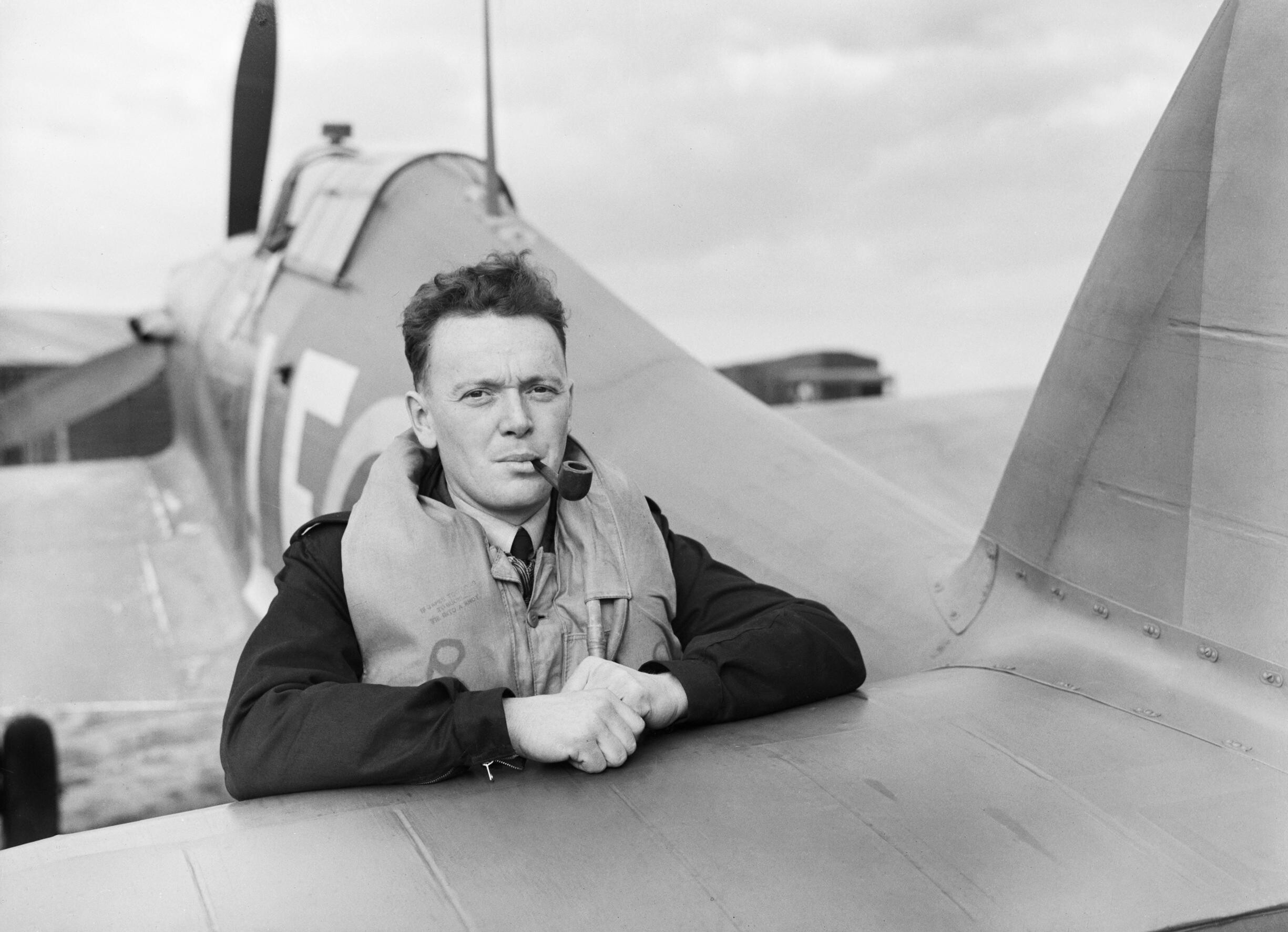 Flight Lieutenant P S Turner of No. 242 Squadron RAF, rests on the tail elevator of his Hawker Hurricane Mk I, after landing at Fowlmere, near Duxford in Cambridgeshire, September 1940. Flight-Lieutenant P S Turner of No. 242 Squadron RAF, rests on the tail elevator of his Hawker Hurricane Mark I, after landing at Fowlmere, Cambridgeshire, (No. 242 Squadron were based at Coltishall, Norfolk at this time). Turner, a Canadian citizen, was a successful fighter pilot over France and during the Battle of Britain in 1940, destroying ten enemy aircraft.